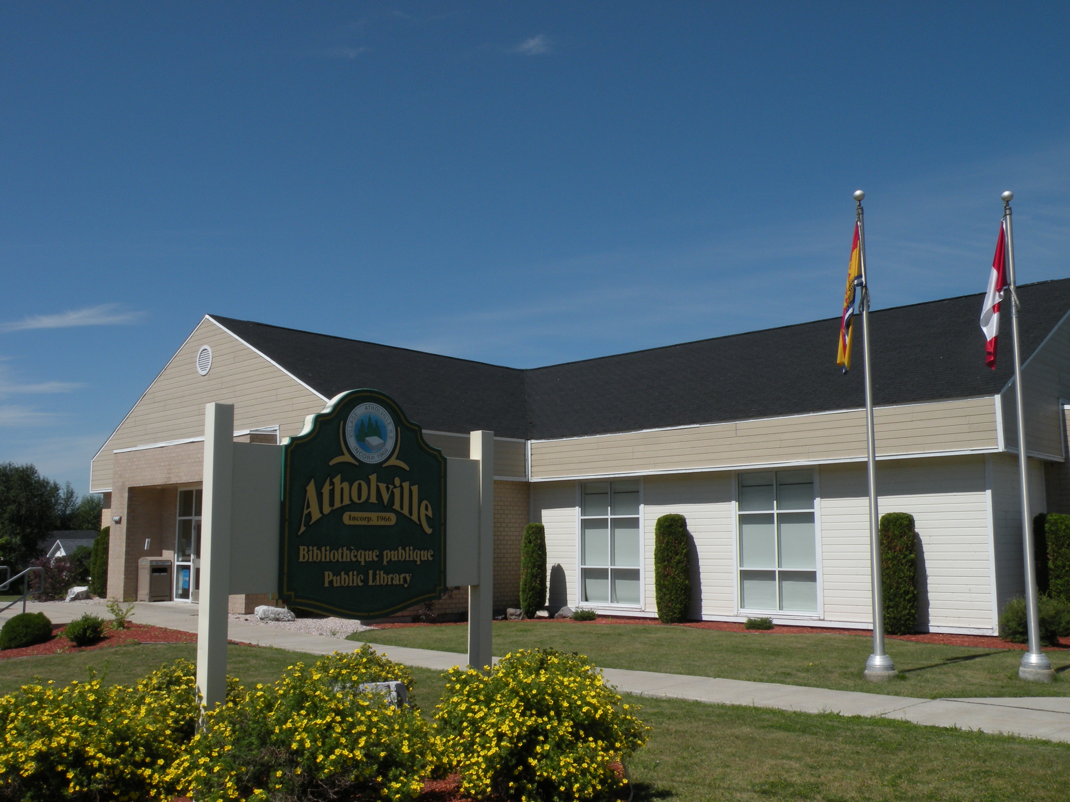 The public library in Atholville, New Brunswick, Canada.